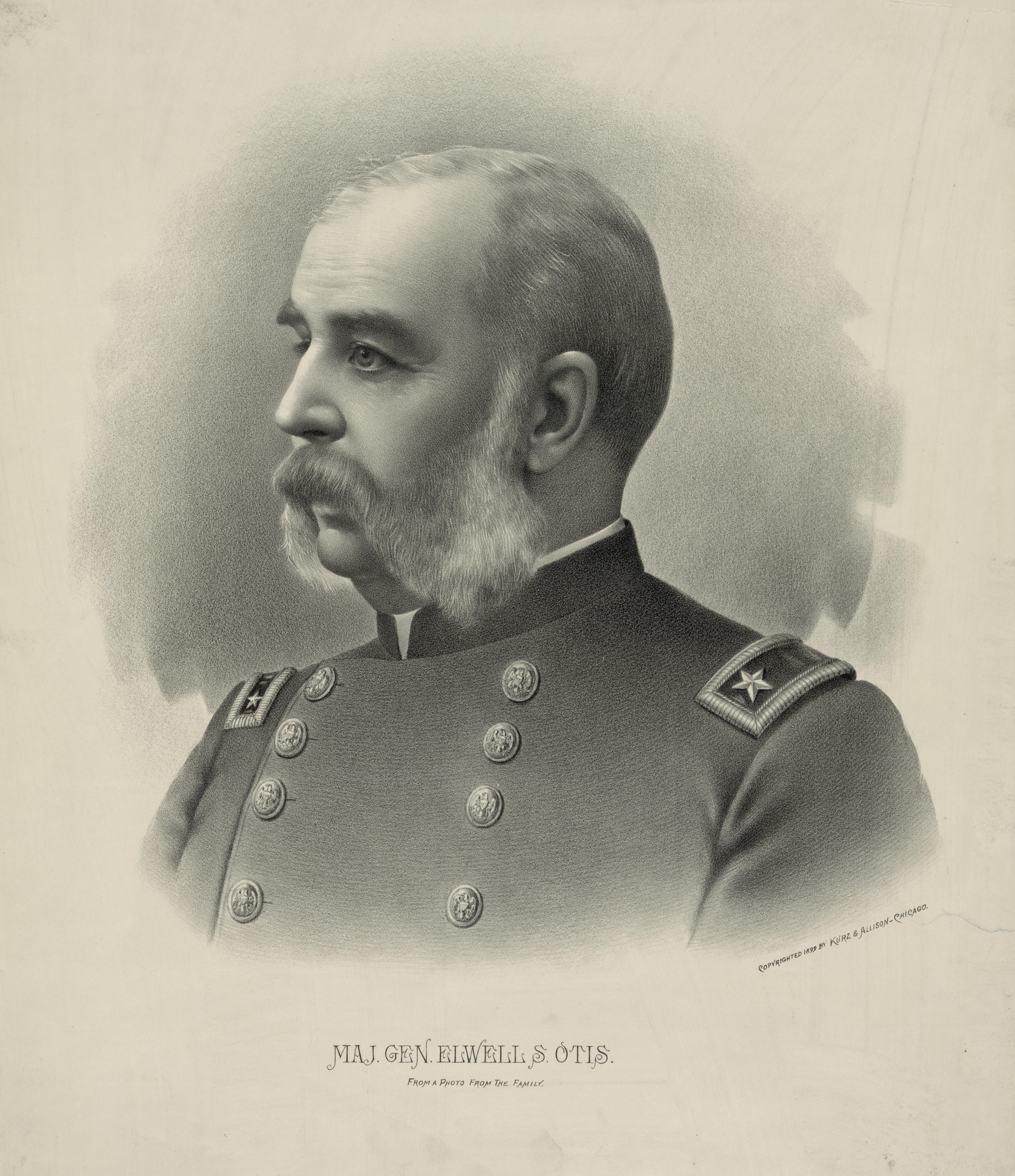 Maj. Gen. Elwell S. Otis from a photo from the family.